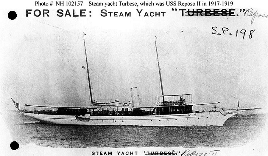 Yacht Turbese, prior to her United States Navy service as patrol vessel USS Reposo II (SP-198)